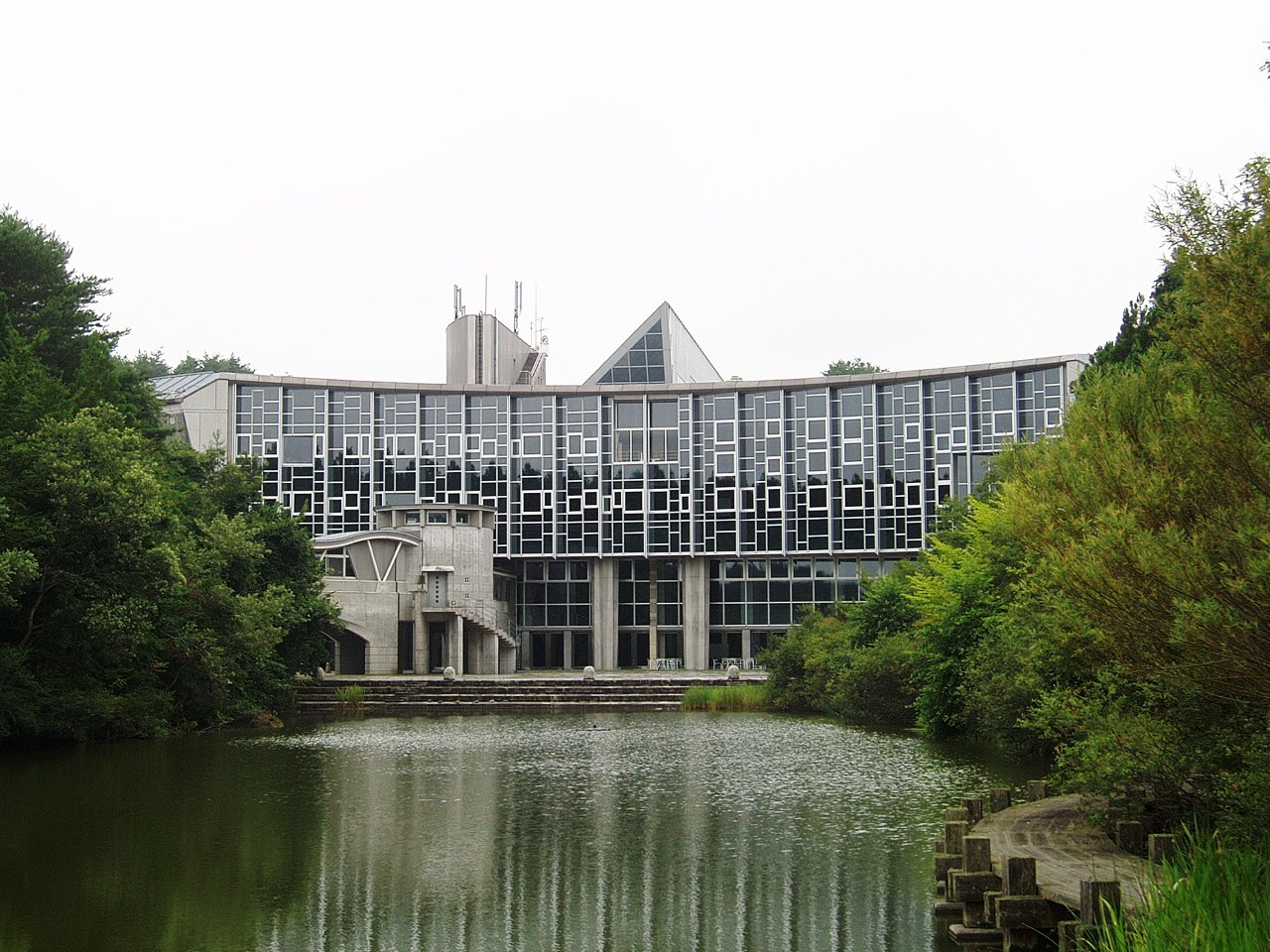 Main Bldg. of Miyagi University, located in Taiwa, Miyagi, Japan.